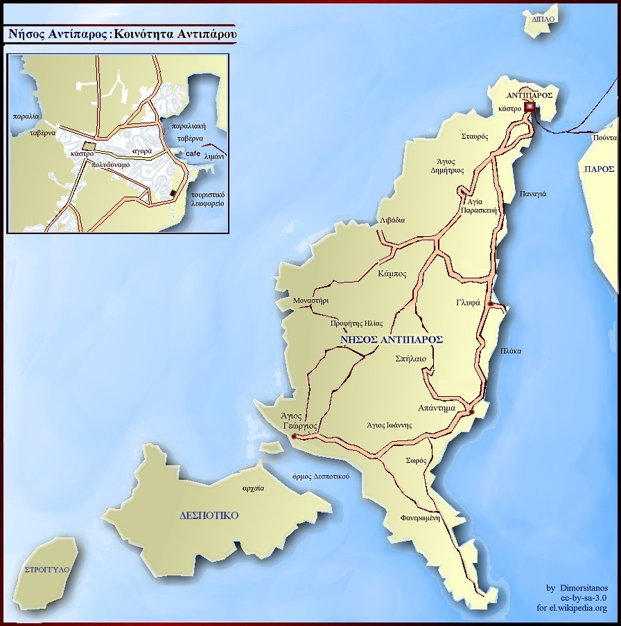 Map of Antiparos island, Greece